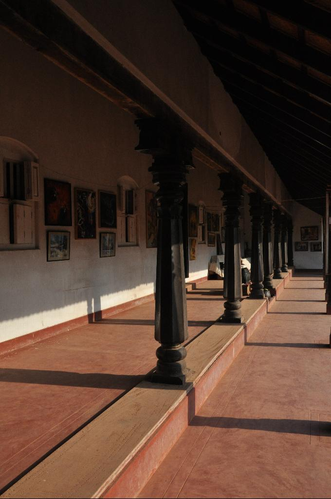 Guthu mane - traditional homes of bunt community of coastal Karnataka Thanks Prajwal for correcting the info. Ref: Comment below. A rather square complex with ample space for storage all around. The pillars are made of wood. There are usually 4 doors, one on each side of the square complex. The roof is of Mangalore tiles. The inner square is an open area - a place often utilized to dry stuff the natural way with sunlight. Taken during the visit to PilikuLa kaMbaLa. This house was on display as a museum convert. There were paintings on display too.